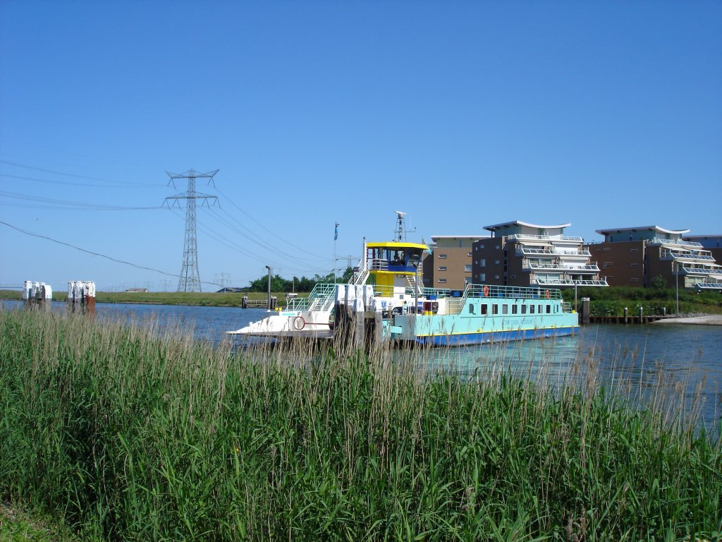 The Ferry between Nieuw-Beijerland and Hekelingen/Spijkenisse across the Spui River in the province South-Holland